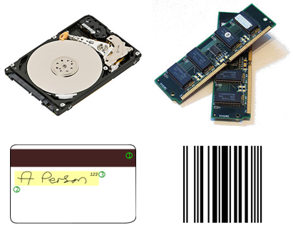 This is a montage of images already available on wiki commons. File:Pair32mbEDO-DRAMdimms.jpg by Douglas Whitaker File:CCardBack.svg by Rainald62 File:UPC-E-654321.png by Hooper114 File:Laptop-hard-drive-exposed.jpg by Evan-Amos